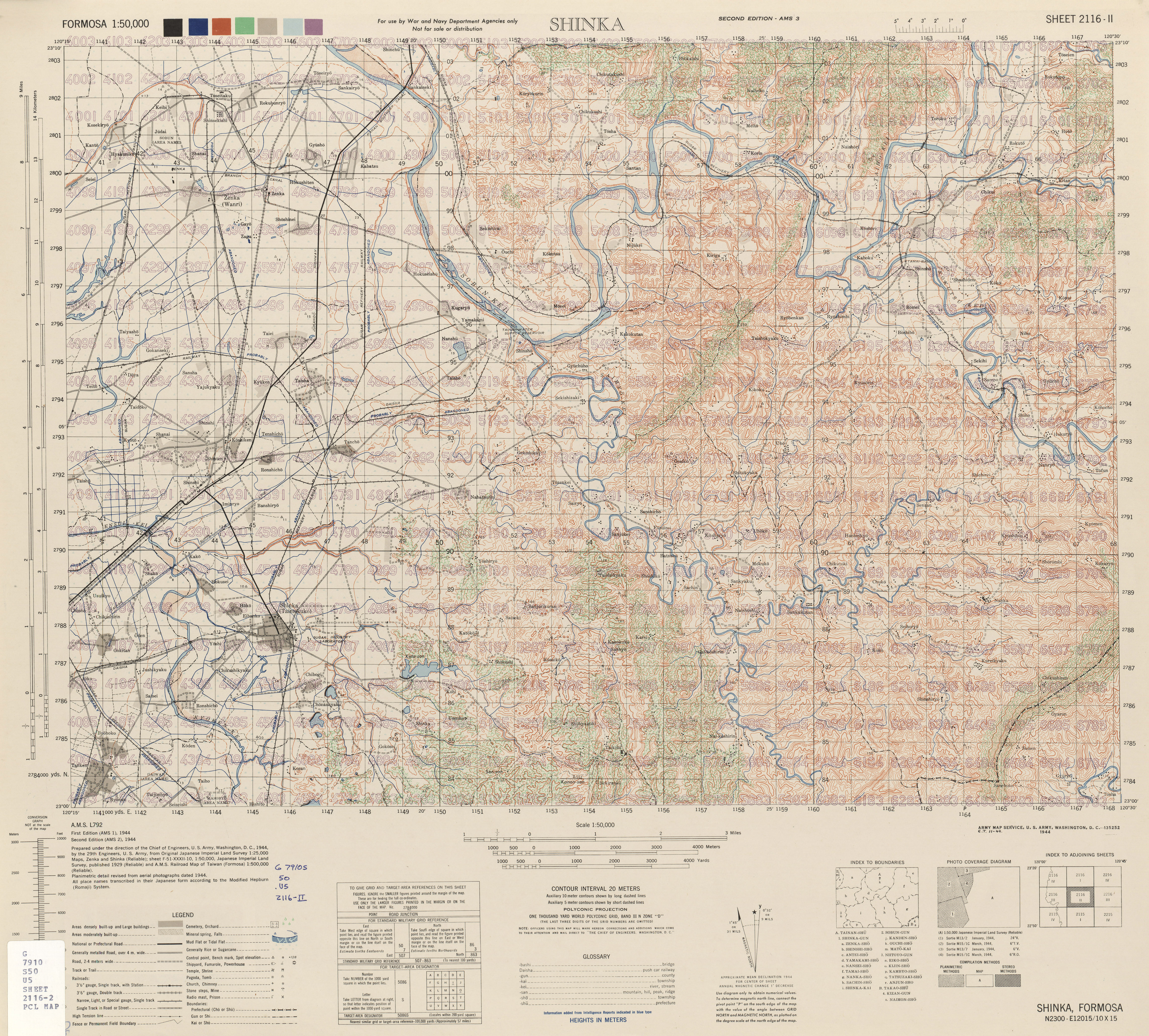 Series L792